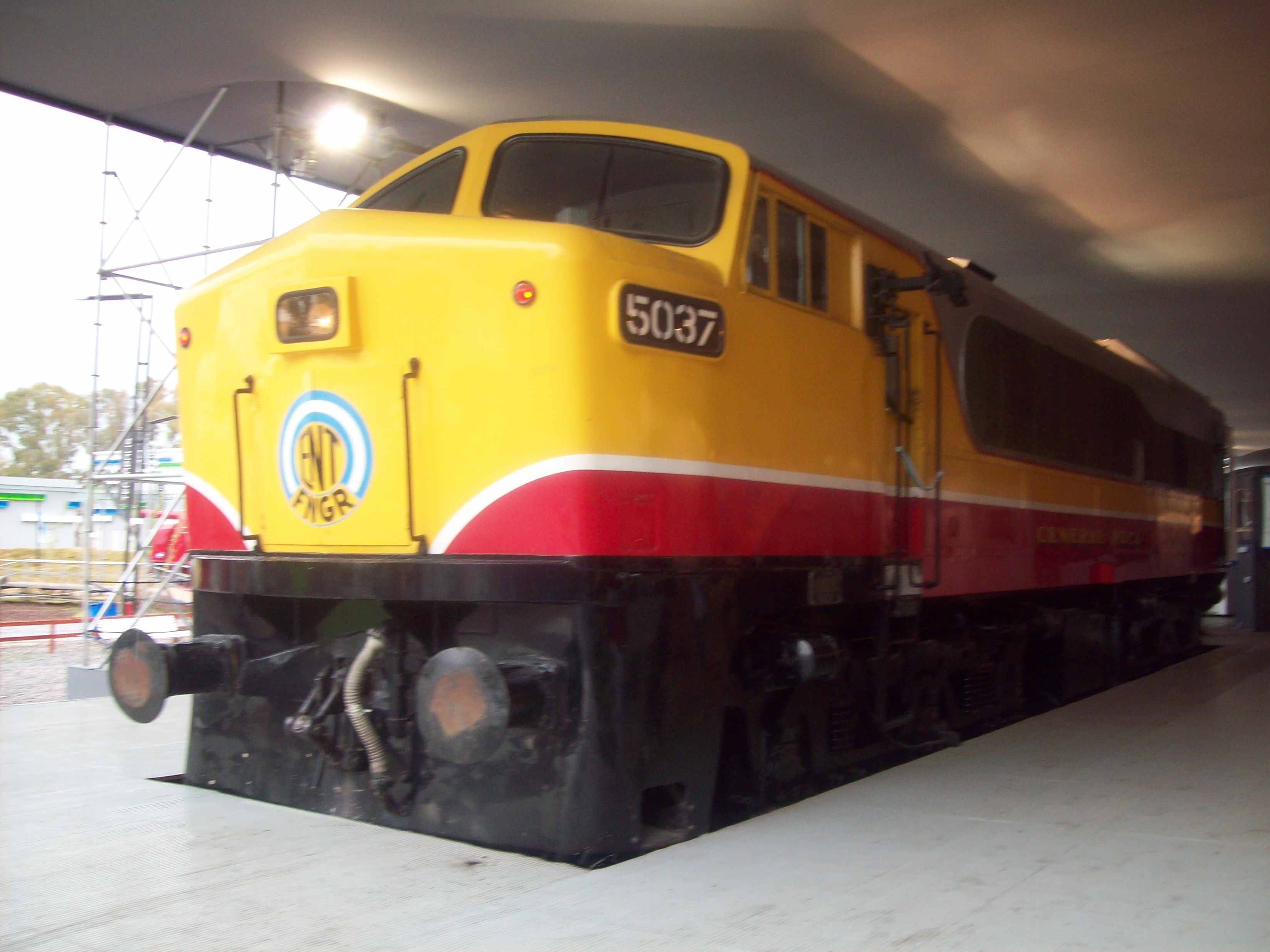 Baldwin-Lima-Hamilton RF615E locomotive, the only still existing in Argentina, displayed at Tecnópolis expo. Those locomotives arrived in 1953-54 to supply Ferrocarril Roca services. They served in both, passenger and freight trains.